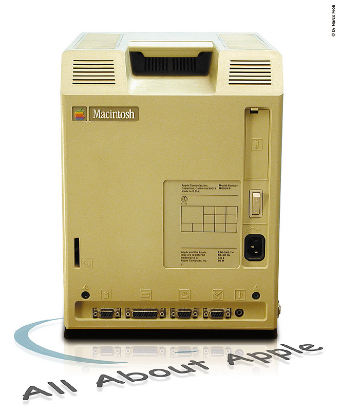 Macintosh 128K connections.